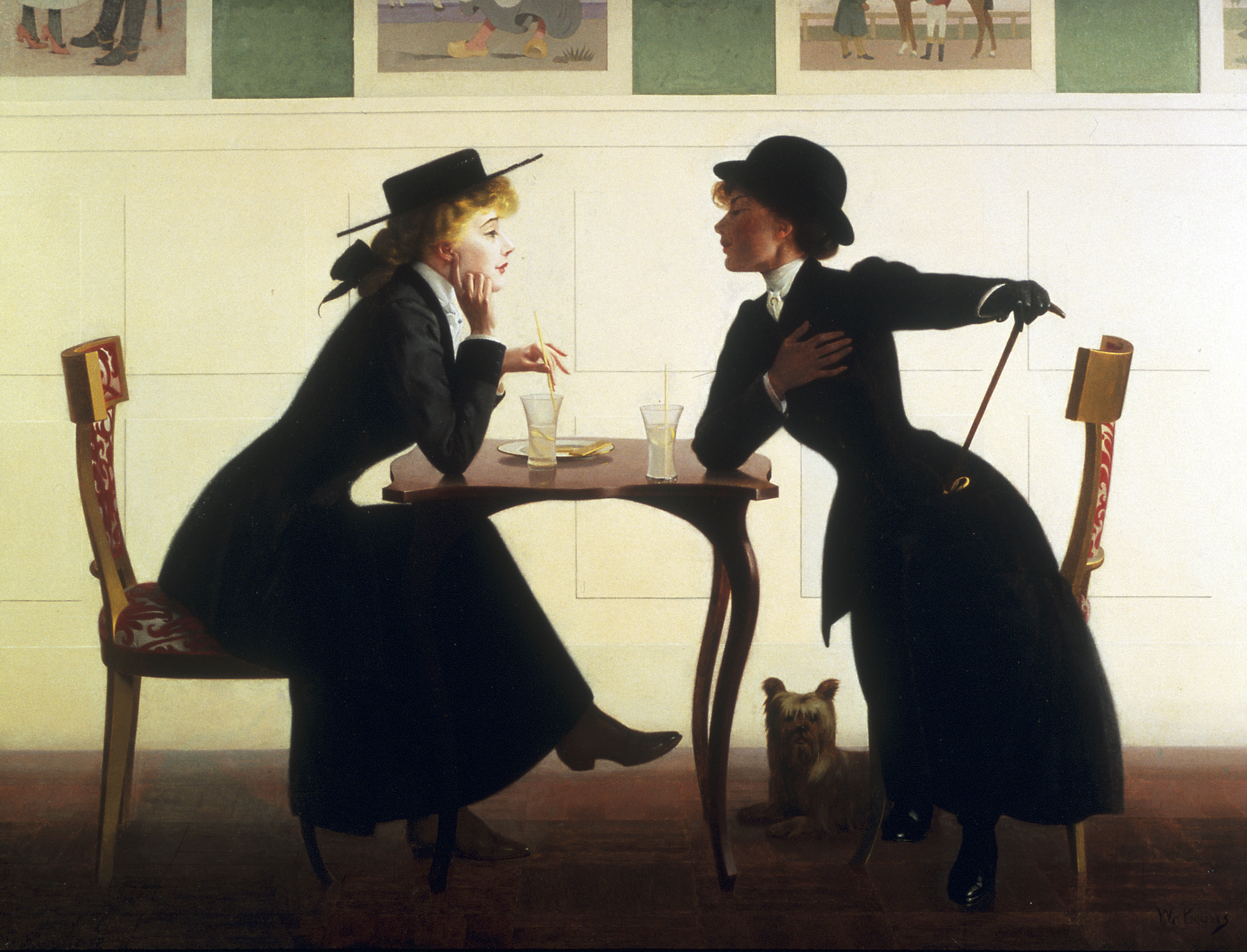 Harry Willson Watrous (1857-1940). "Some Little Talk of Me and Thee There Was." 1905-9. Oil on canvas.